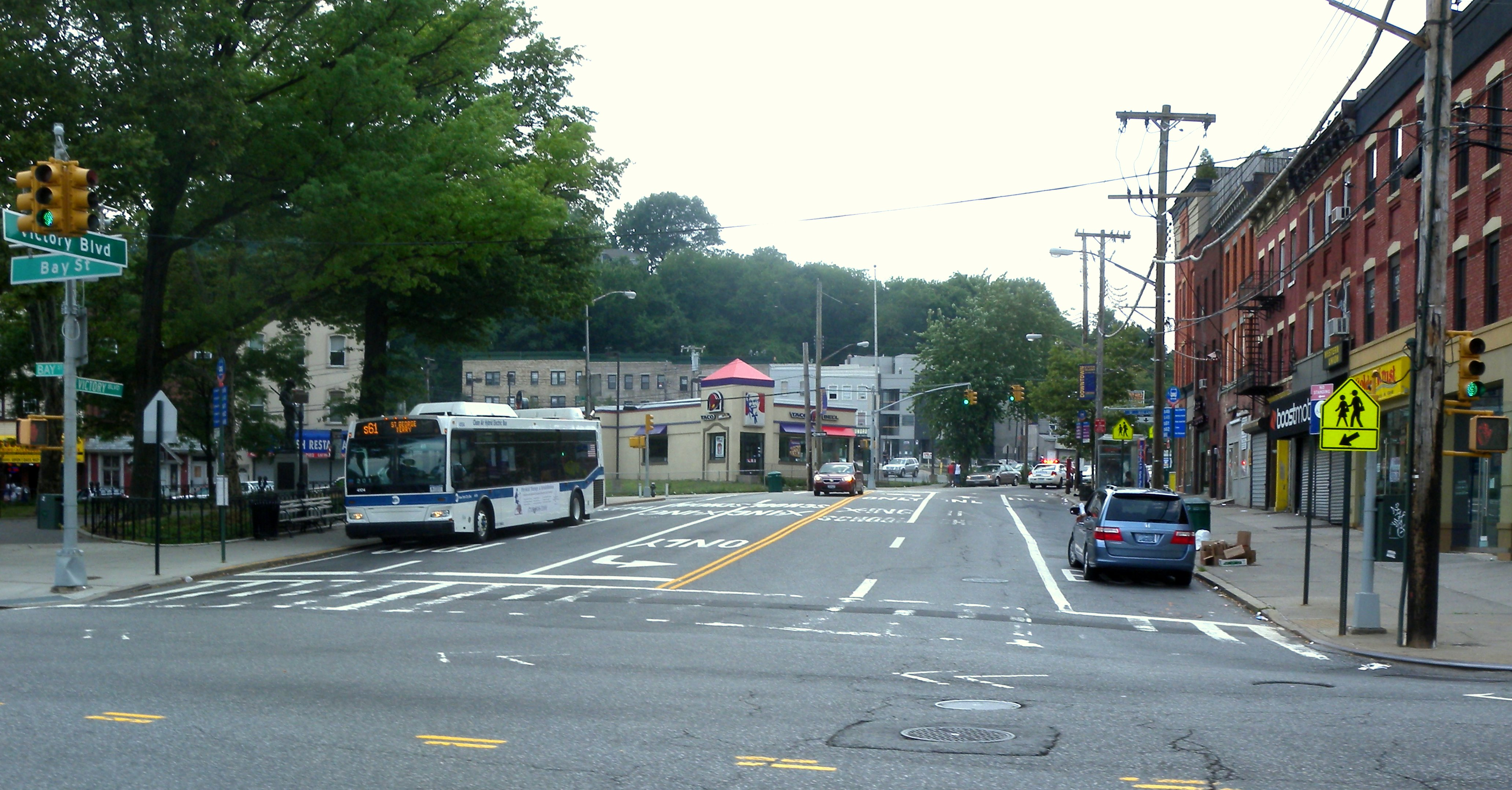 Looking west across Bay Street at east end of Victory Boulevad on a cloudy early afternoon.